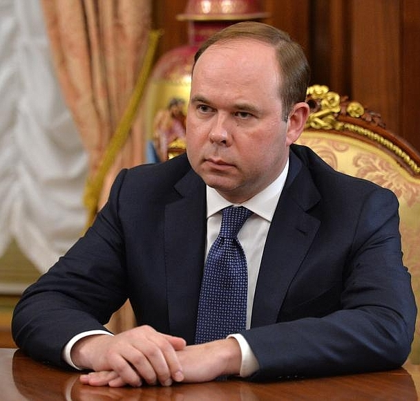 Anton Vaino in meeting with Vladimir Putin and Sergei Ivanov